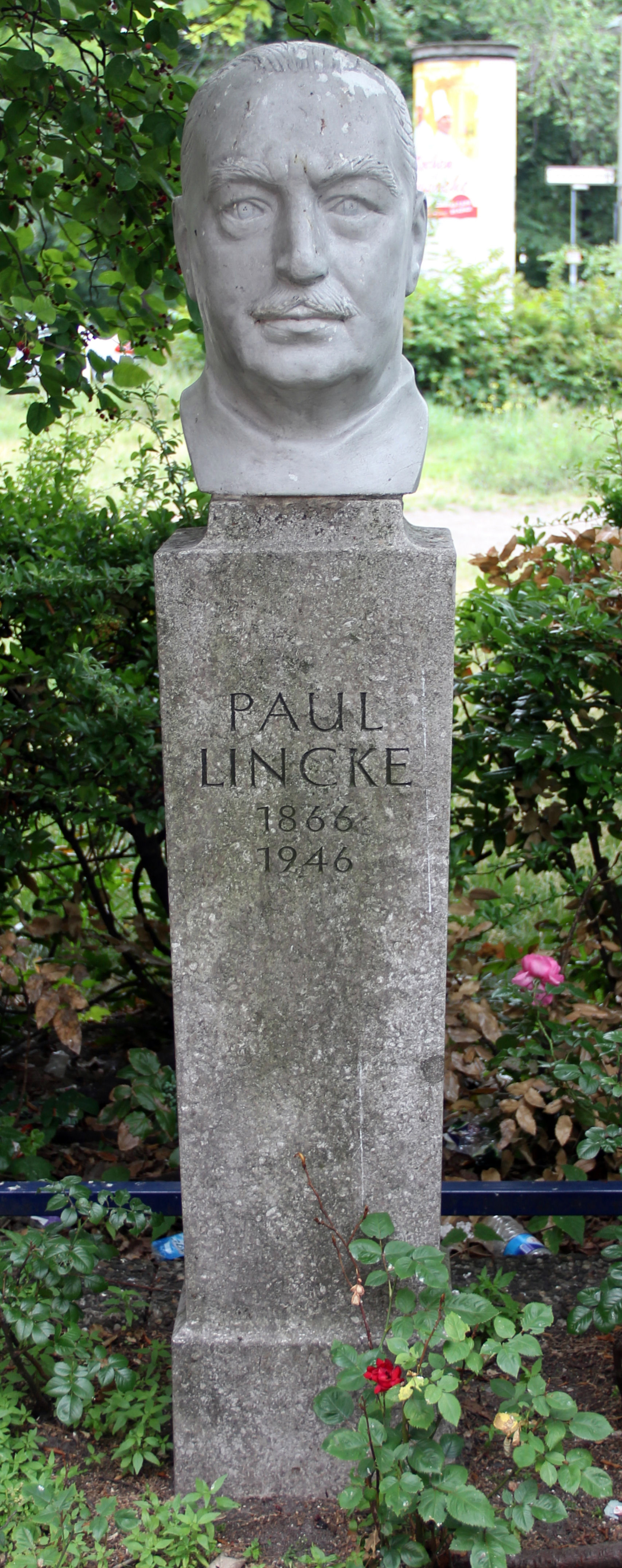 Bust, Paul Lincke by Hans Joachim Ihle, 1953, Oranienstraße 64, Berlin-Kreuzberg, Germany